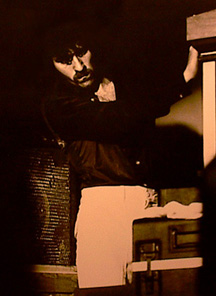 Dan Pinto Composer/Keyboardist Live in concert at the CP-80